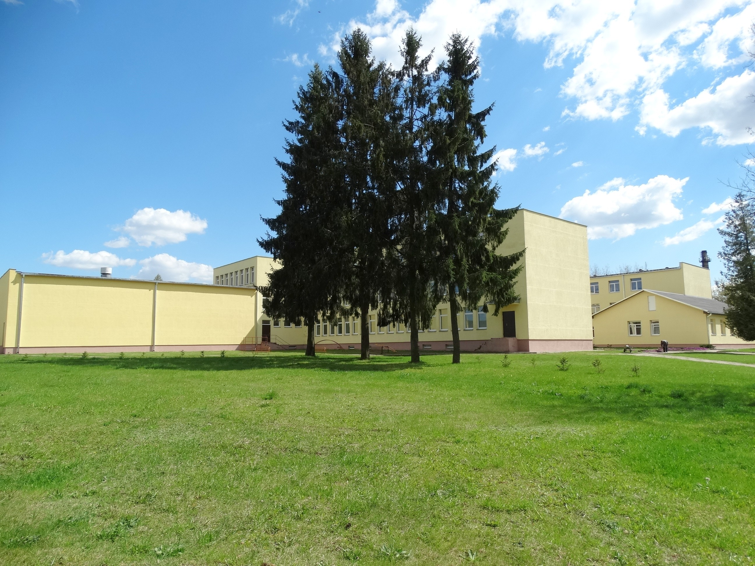 Adam Mickiewicz Gymnasium, Dieveniškės, Šalčininkai District, Lithuania